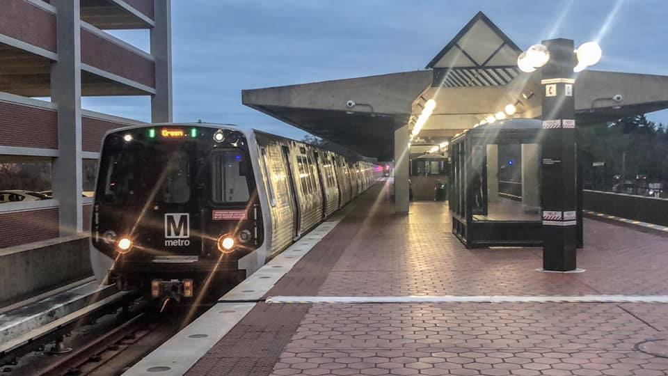 WMATA Kawaski 7000 Series on the Green Line at College Park